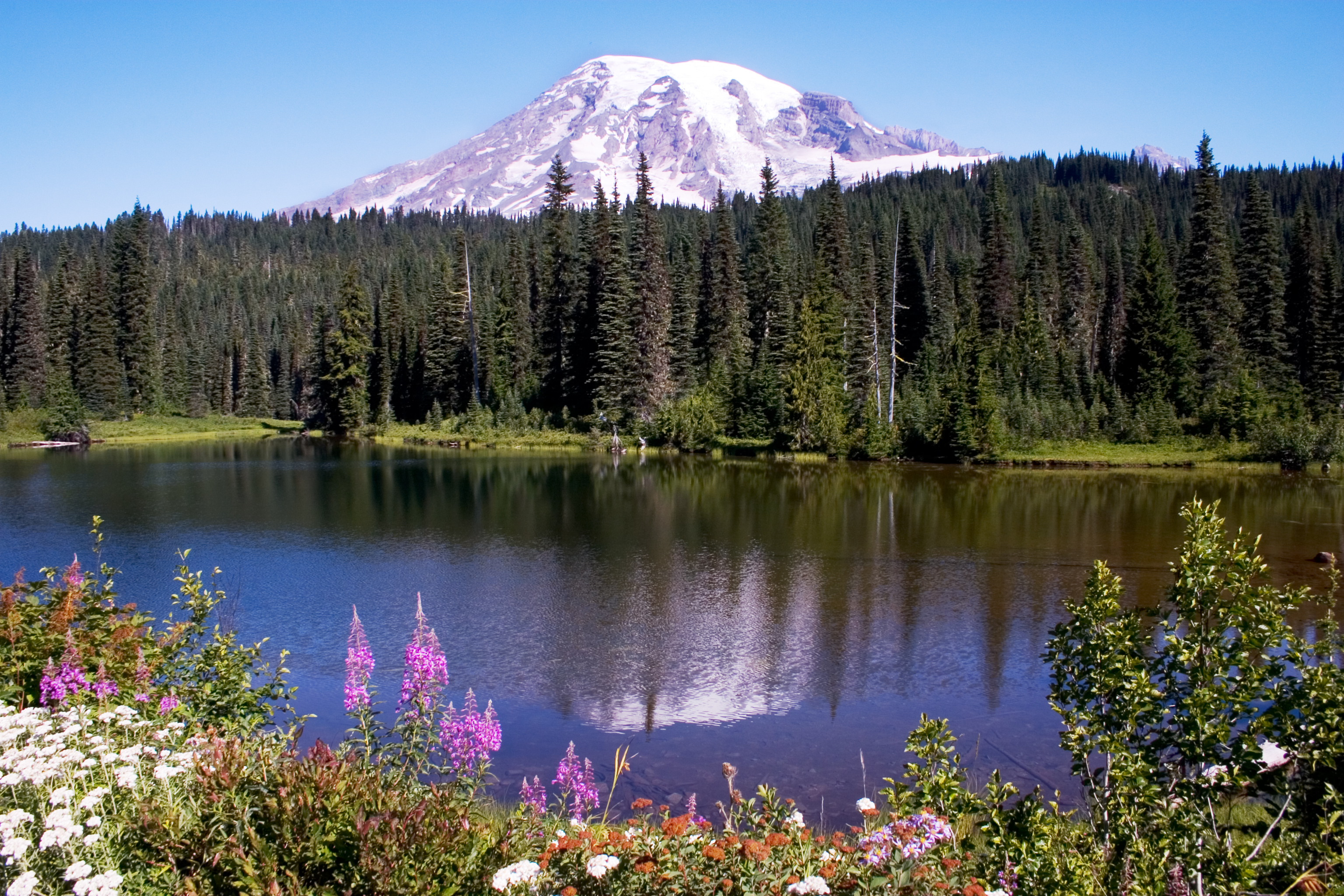 Mount Rainier reflected in Reflection lake.